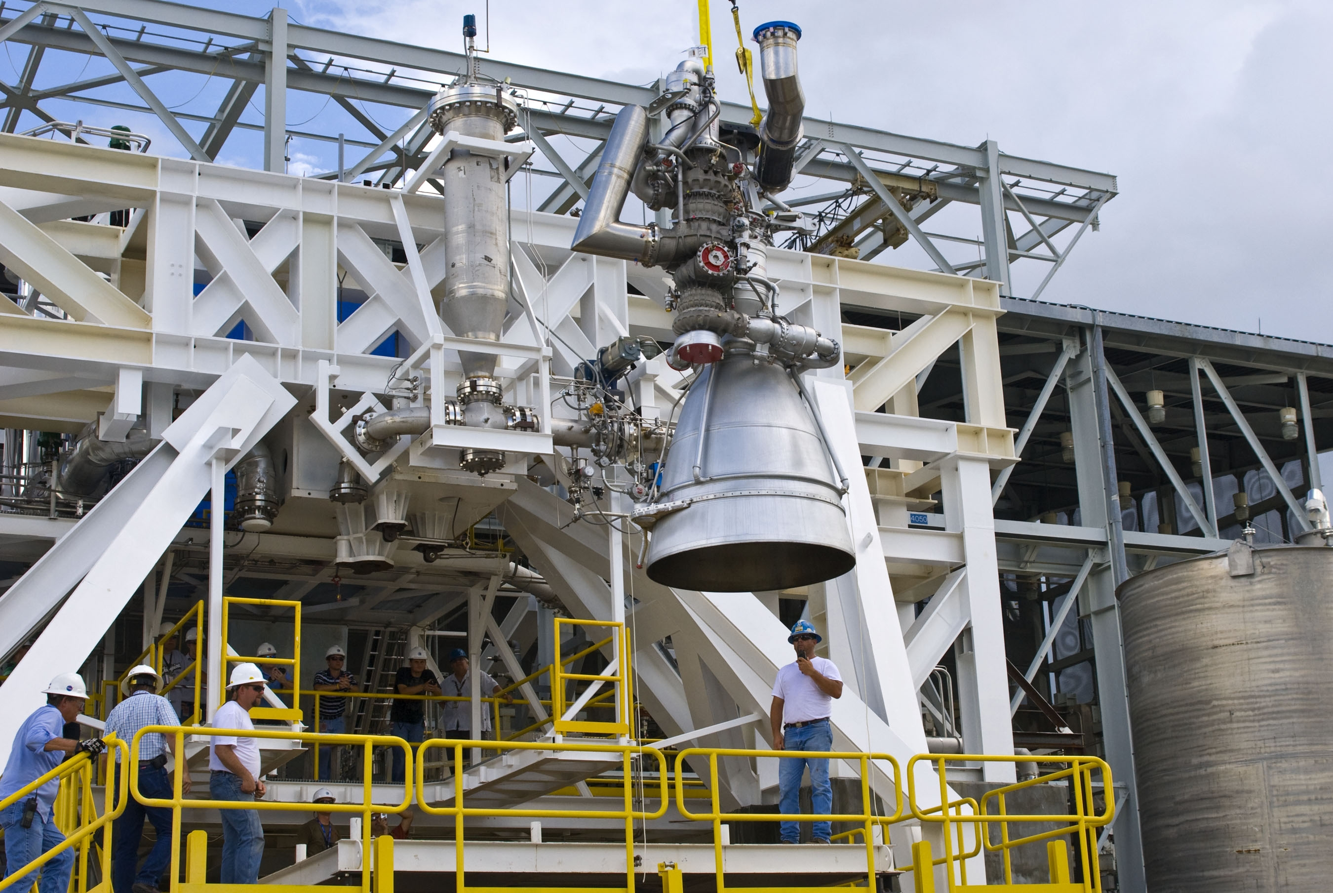 An Aerojet AJ26 rocket engine is prepared to be installed in the E-1 Test Stand at Stennis Space Center. Image credit: NASA